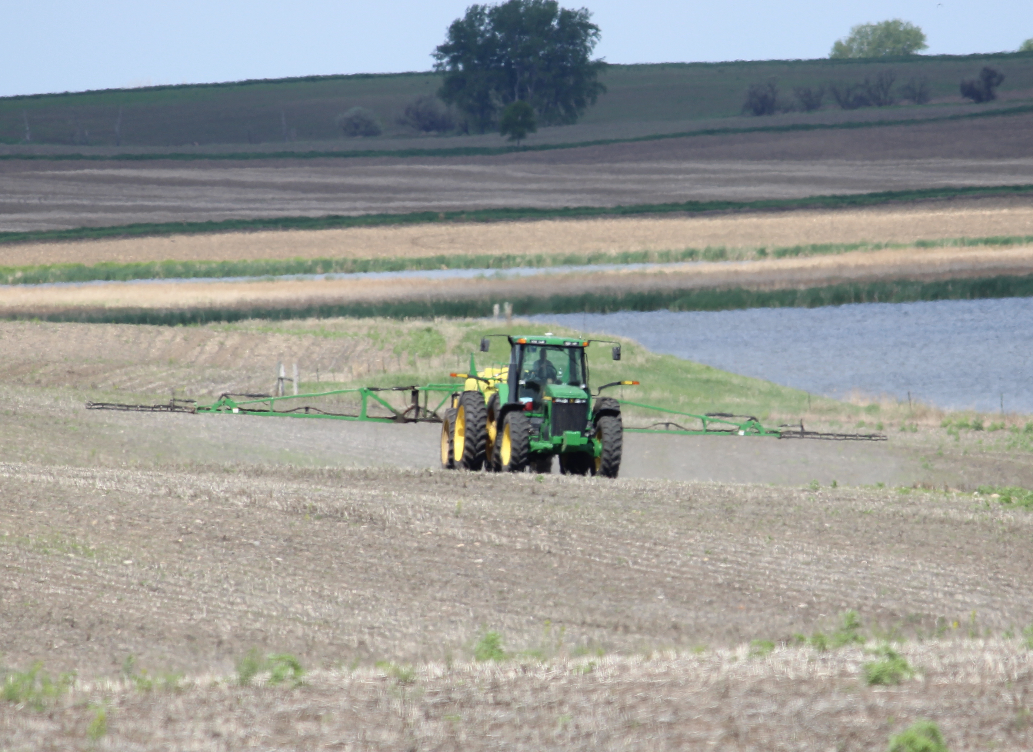 Uploader's description: A Kulm WMD Biotech broadcasts herbicide prior to a native prairie reseeding. This will help prevent the "weeds" from getting a jump on, and shading out the native species that will be seeded here shortly afterward. This particular tract of the Carlson Waterfowl Production Area in LaMoure County, ND has been farmed by a local cooperator for the past three years. Farming a previously-broken tract of land helps to get noxious weeds under control and gives good seed bed preparation for the re-establishment of native species. These new seedings will provide more diverse cover and structure for waterfowl and other grassland-nesting bird species. Photo Credit: Krista Lundgren/USFWS